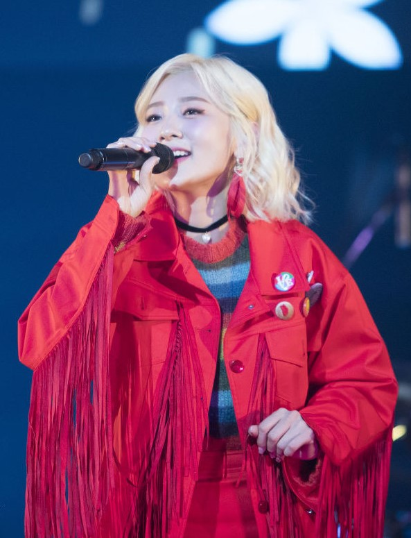 Ahn Ji-young at the Japan Tokyo Showcase on February 28, 2018